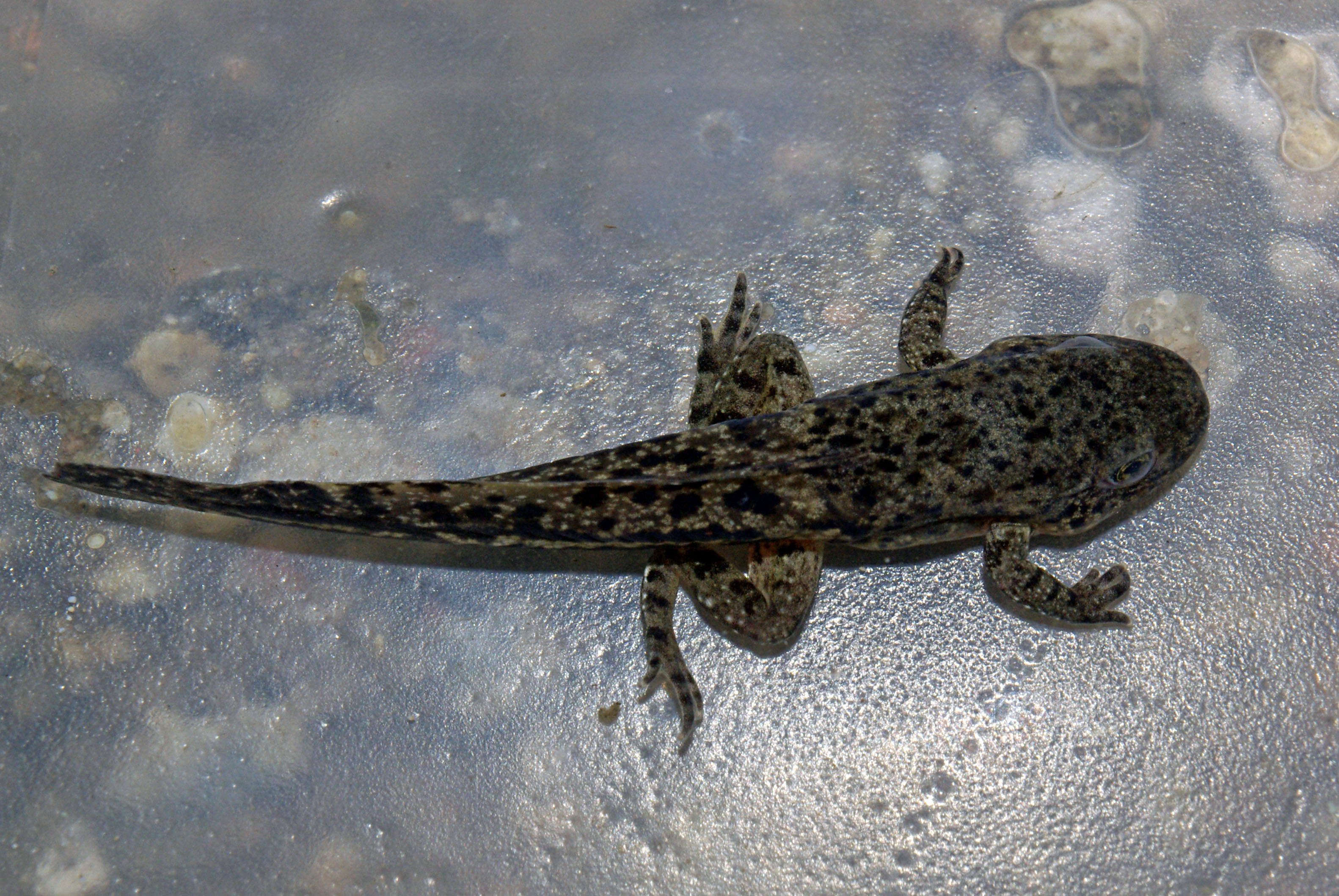 Tadpole of Iberian Frog (Rana iberica) in River Duratón, near Rábano (Valladolid, Spain)